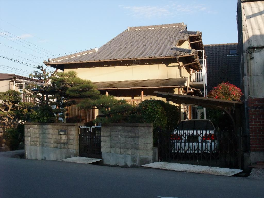 Japanese Style House(my own house is).